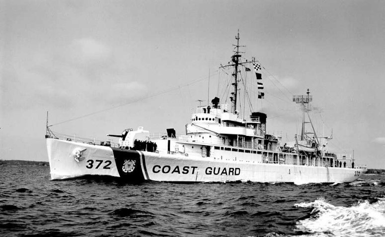 United States Coast Guard cutter USCGC Humboldt (WAVP-372), later WHEC-372.